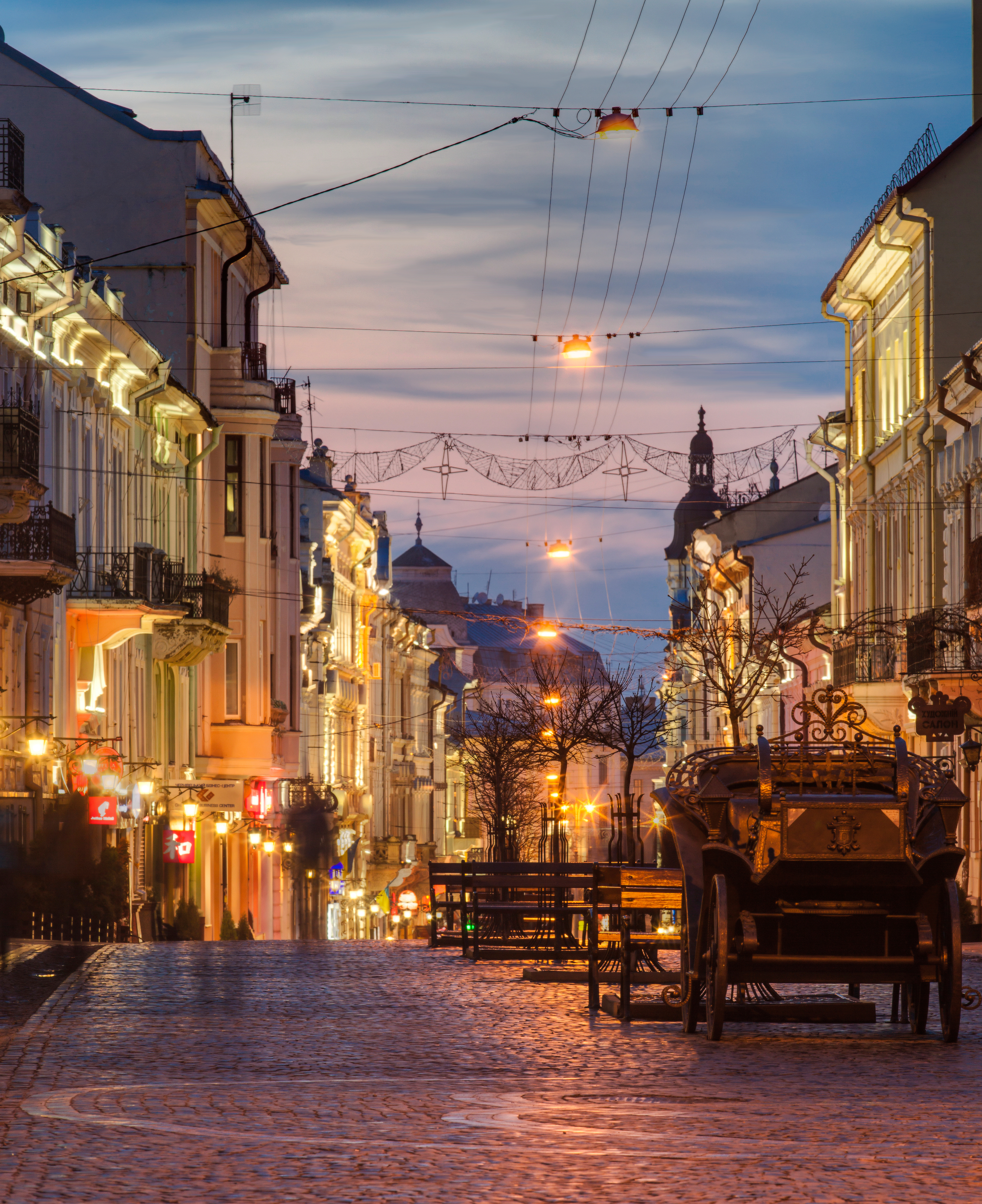 Ensemble of Olha Kobylianska Street (former Herrengasse) in Chernivtsi, main street of the city in the first half of the 20th century (architectural monument of the regional significance №9-Чв)